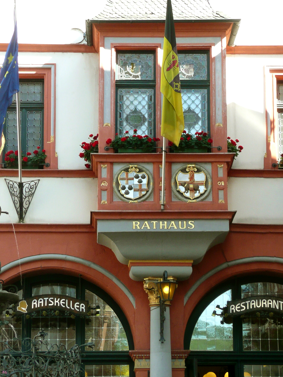 Renaissance town hall balcony, with Bernkastel coats of arms, Rhineland-Palatinate. Renaissance 1608